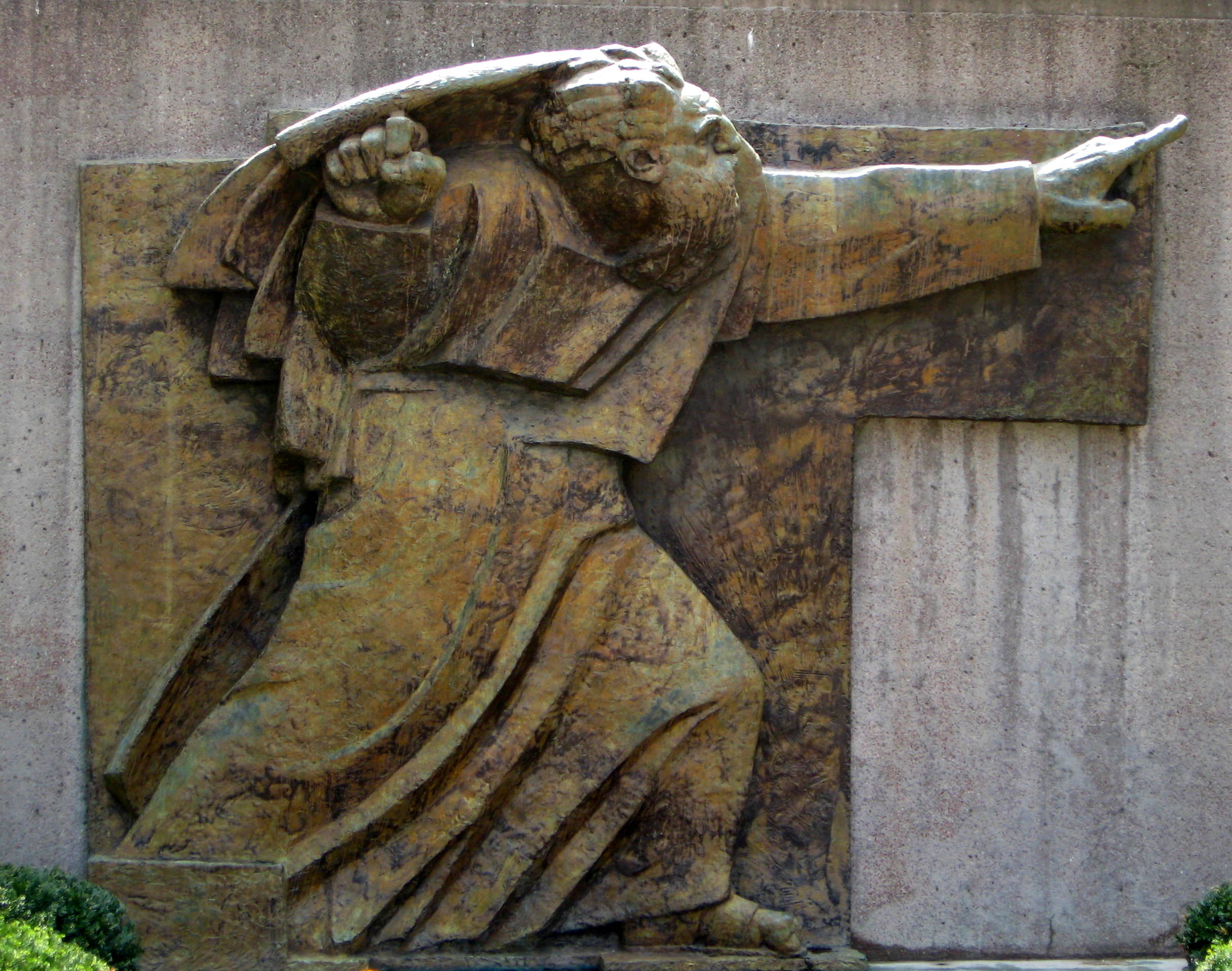 Sculpture by Ivan Meštrović (1952; cast 1990), Syracuse University. "This Moses was intended as the central figure in a memorial to the 6 million Jews who were killed during World War II. The memorial was designed with Moses standing to the left, his arm outstretched over a group of bas-relief figures that are walking towards the tablets of the law on the right. The memorial, intended for placement on New York's Riverside Drive, was never completed because of financial difficulties, and conflicts with the city's Parks Commissioner, Robert Moses." SU Art Galleries description.